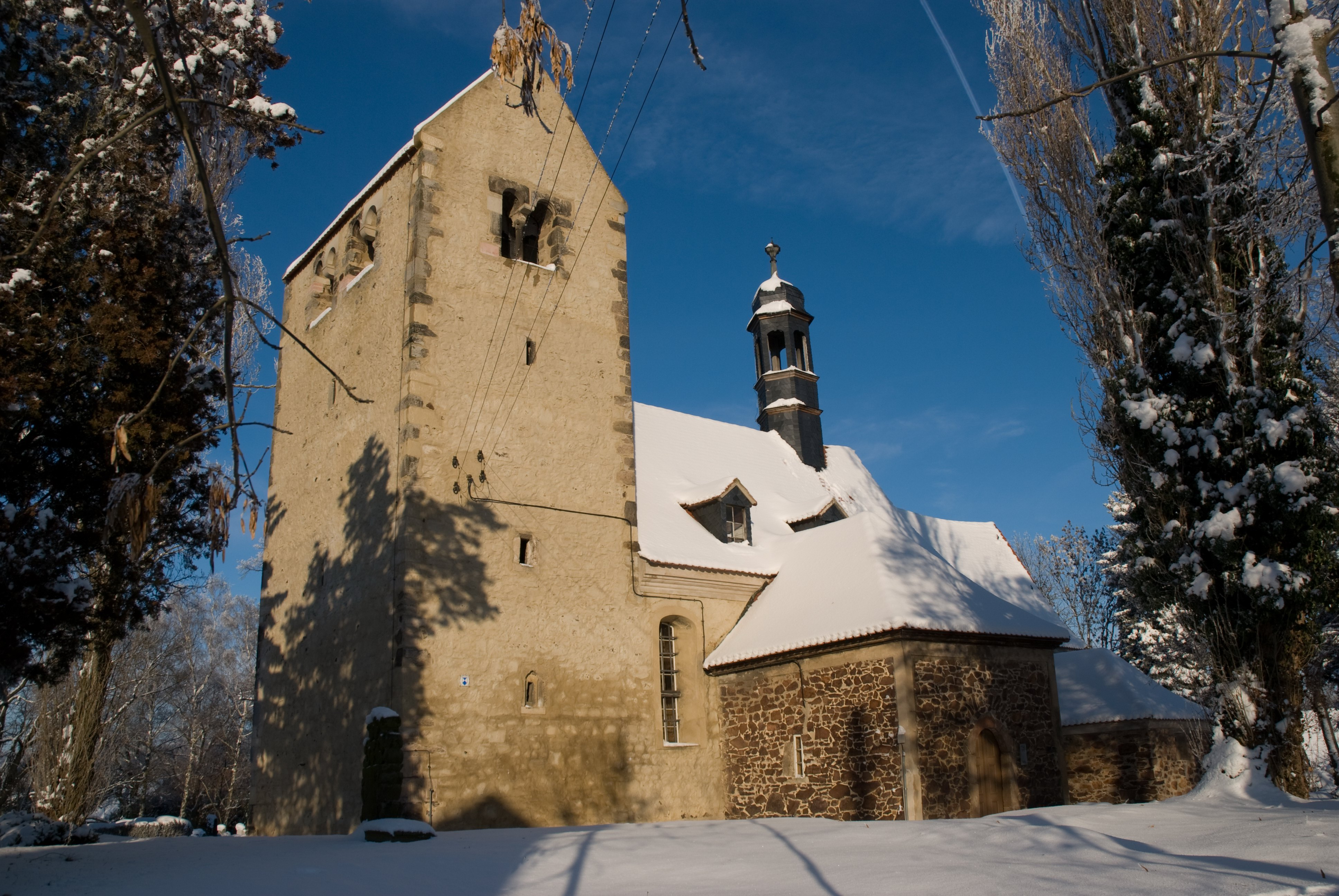 Church in Winter